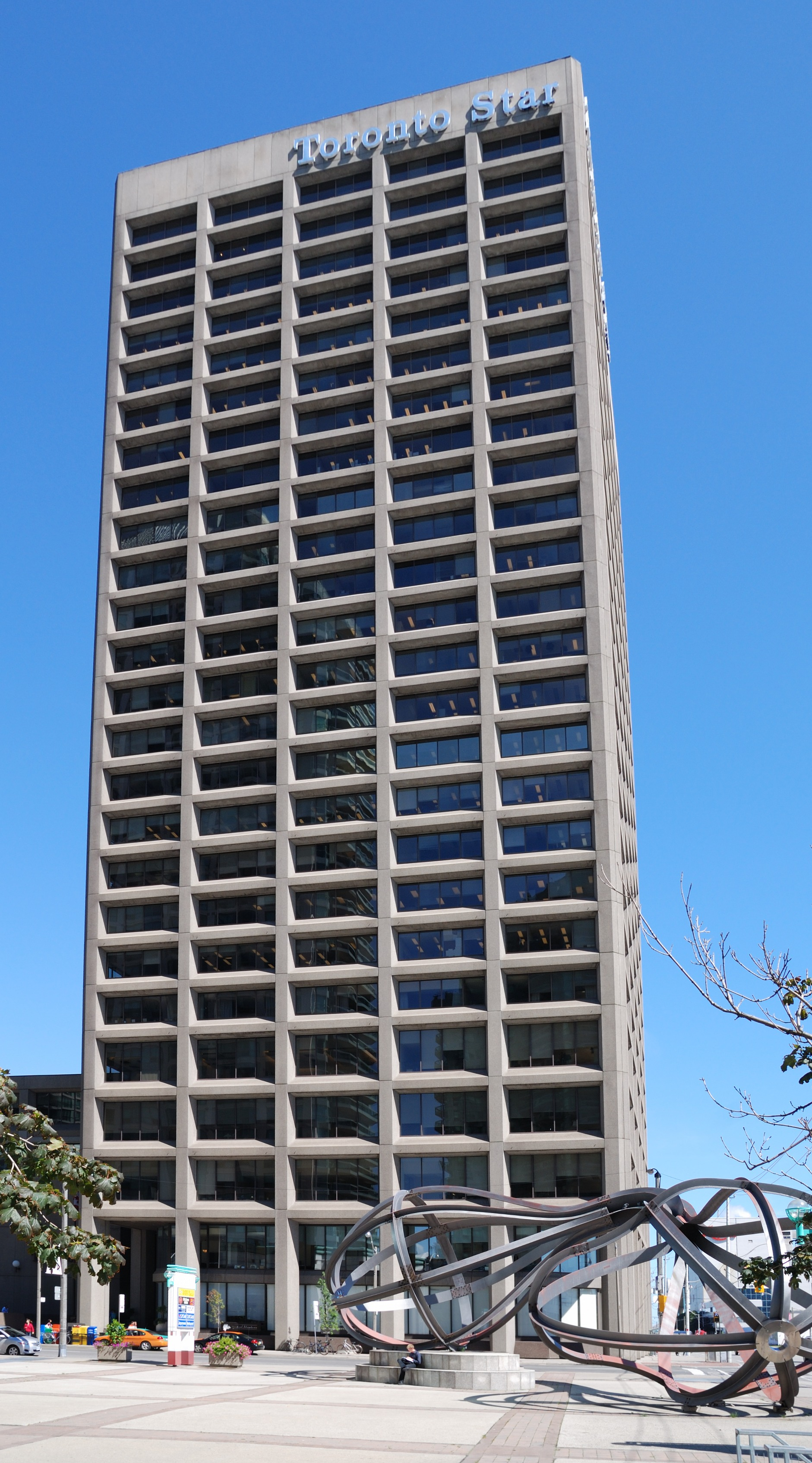 Toronto: Toronto Star building, Yonge Street 1